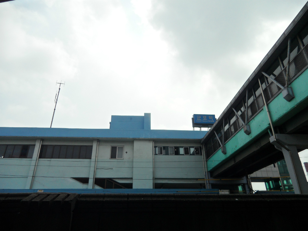 Gunpo Station